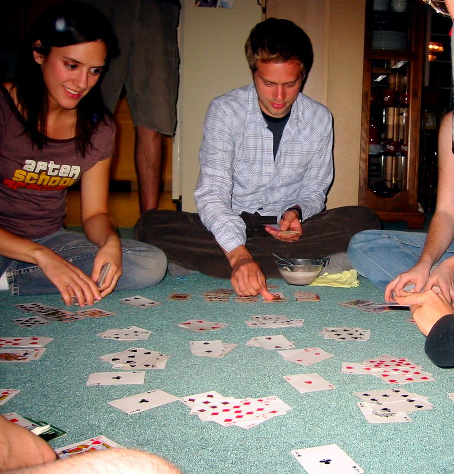 Photos from Walla Walla College's Graduations 2005